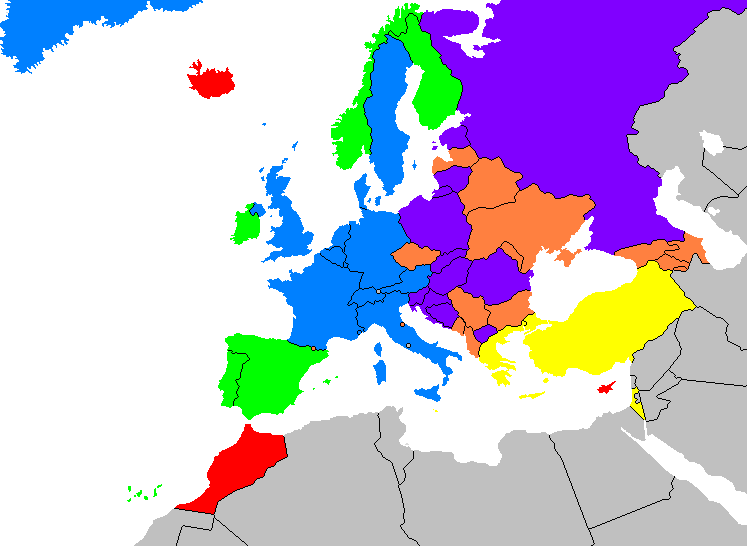 This map shows, when a country took part on the Eurovision Song Contest first time. Blue=1950´s Green=1960´s Yellow=1970´s Red=1980´s Violet=1990´s Orange=2000´s